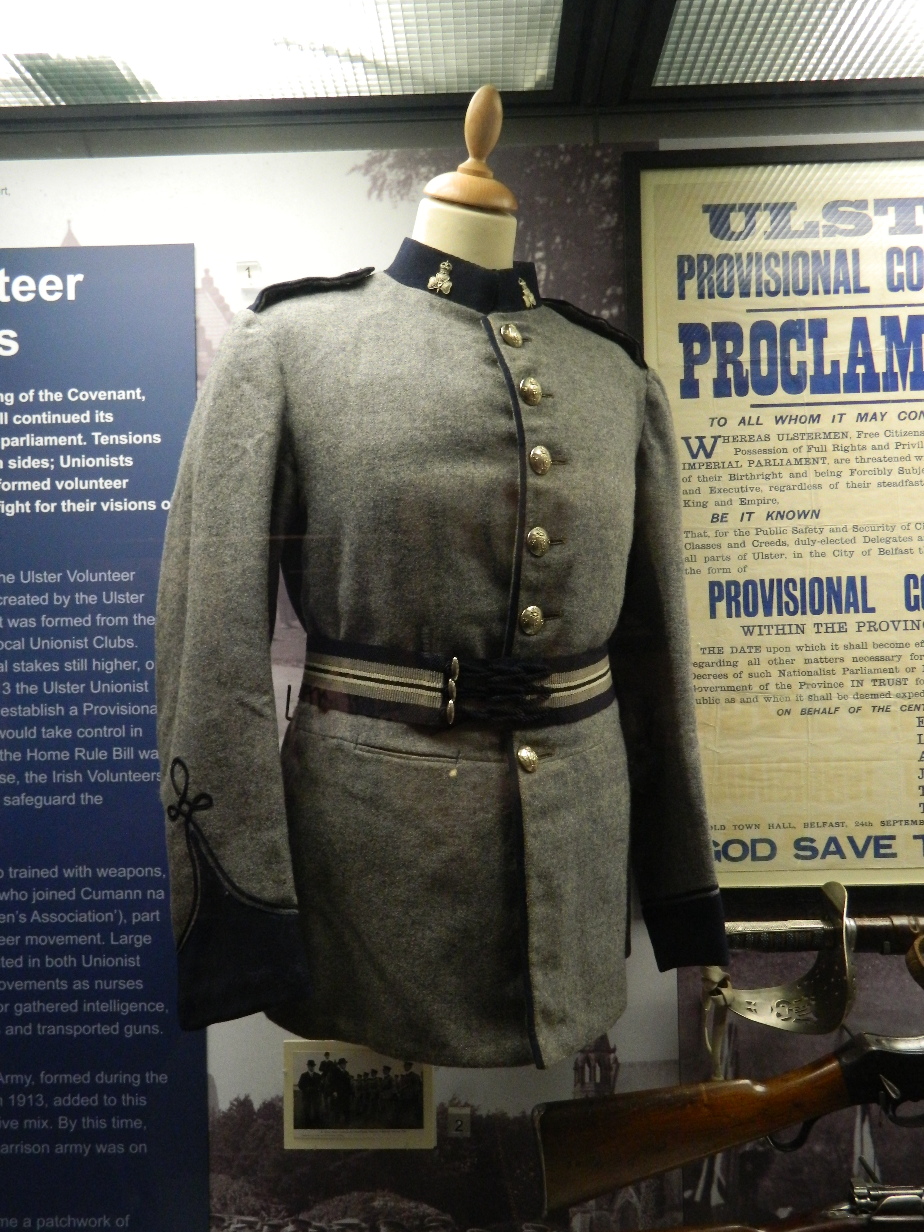 Full dress jacket of the Young Citizen Volunteers, in the Ulster Museum. Circa 1912-1914.